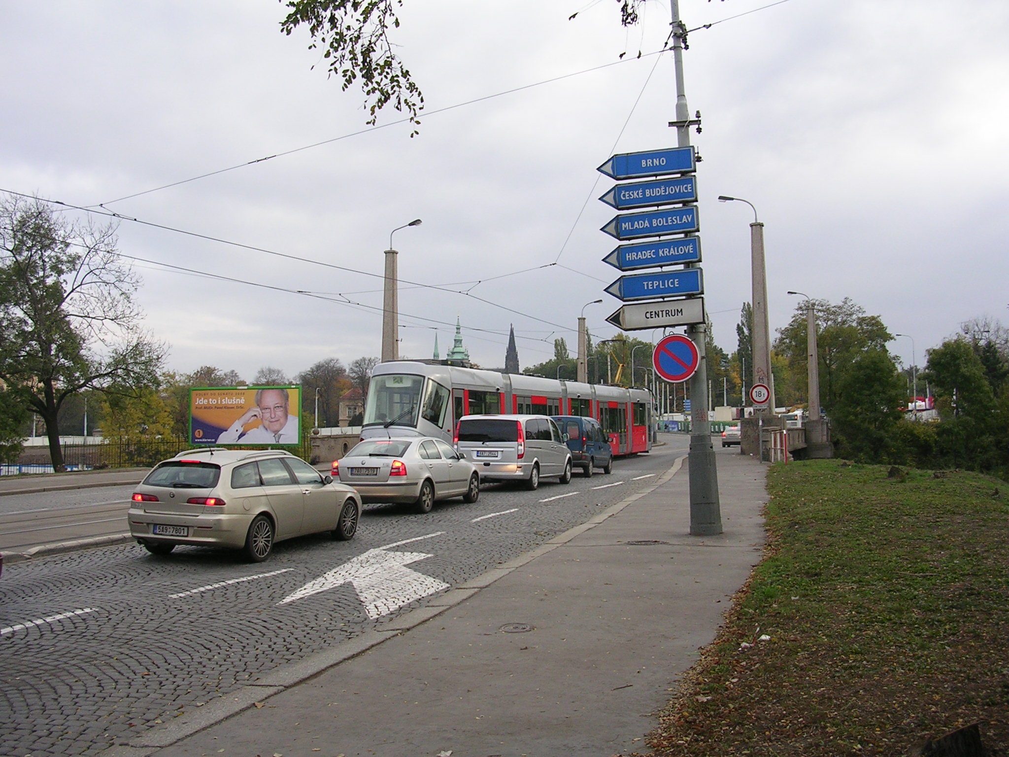 Dejvice, Prague, the Czech Republic.